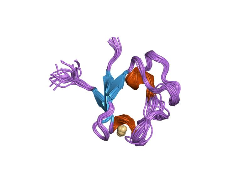 Cartoon representation of the molecular structure of protein registered with 1s24 code.